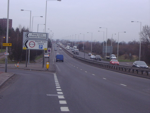 The Parkway northbound Originally named (on the proposed maps anyway) the Hayes Bypass, the name became The Parkway when it was finally built after seemingly interminable delays.